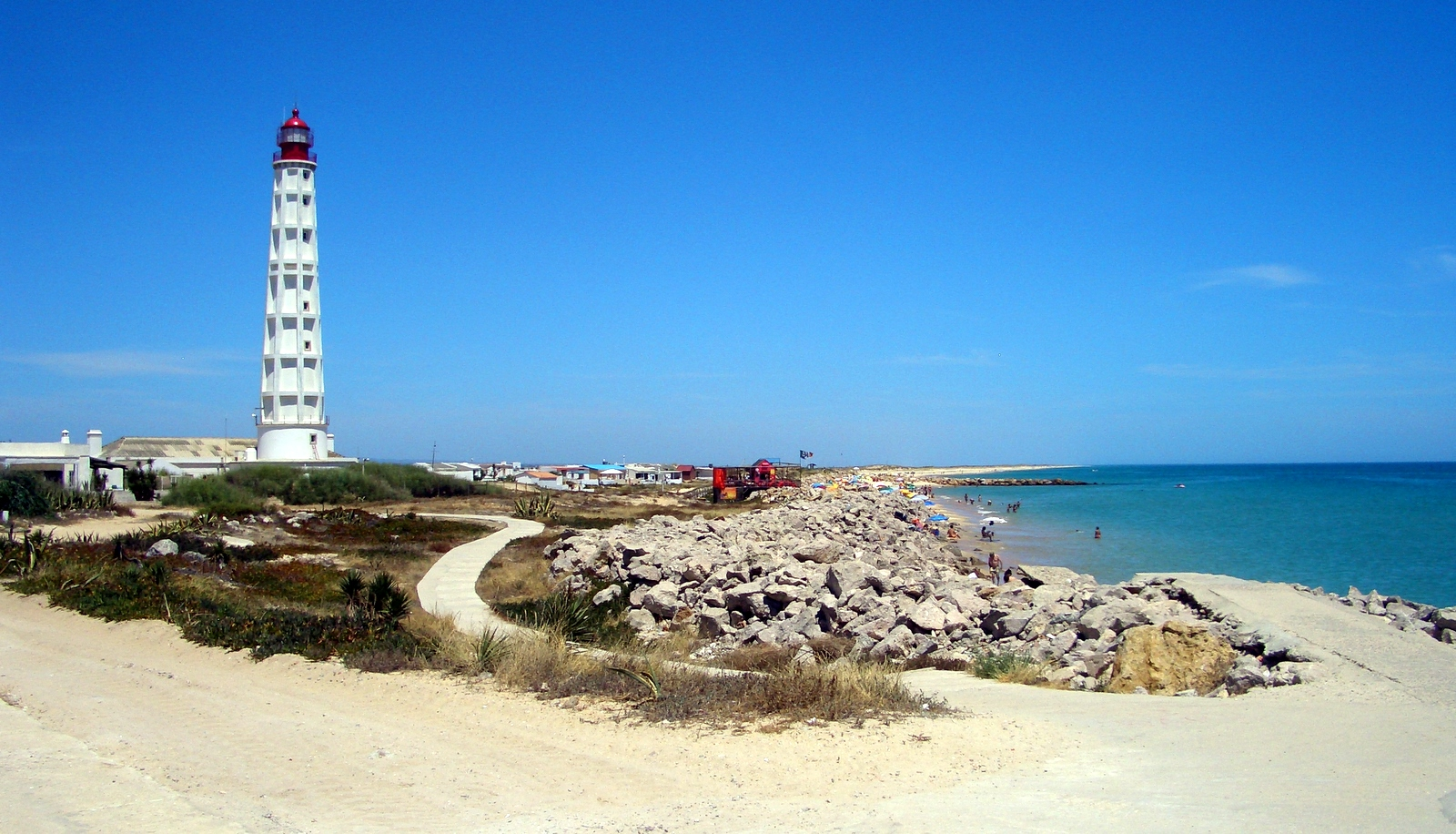 Cabo de Santa Maria Lighthouse in Culatra Island, Ria Formosa, Olhão, Faro, Algarve, Portugal